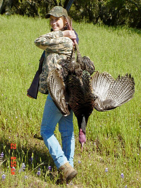 CDFW file photo.